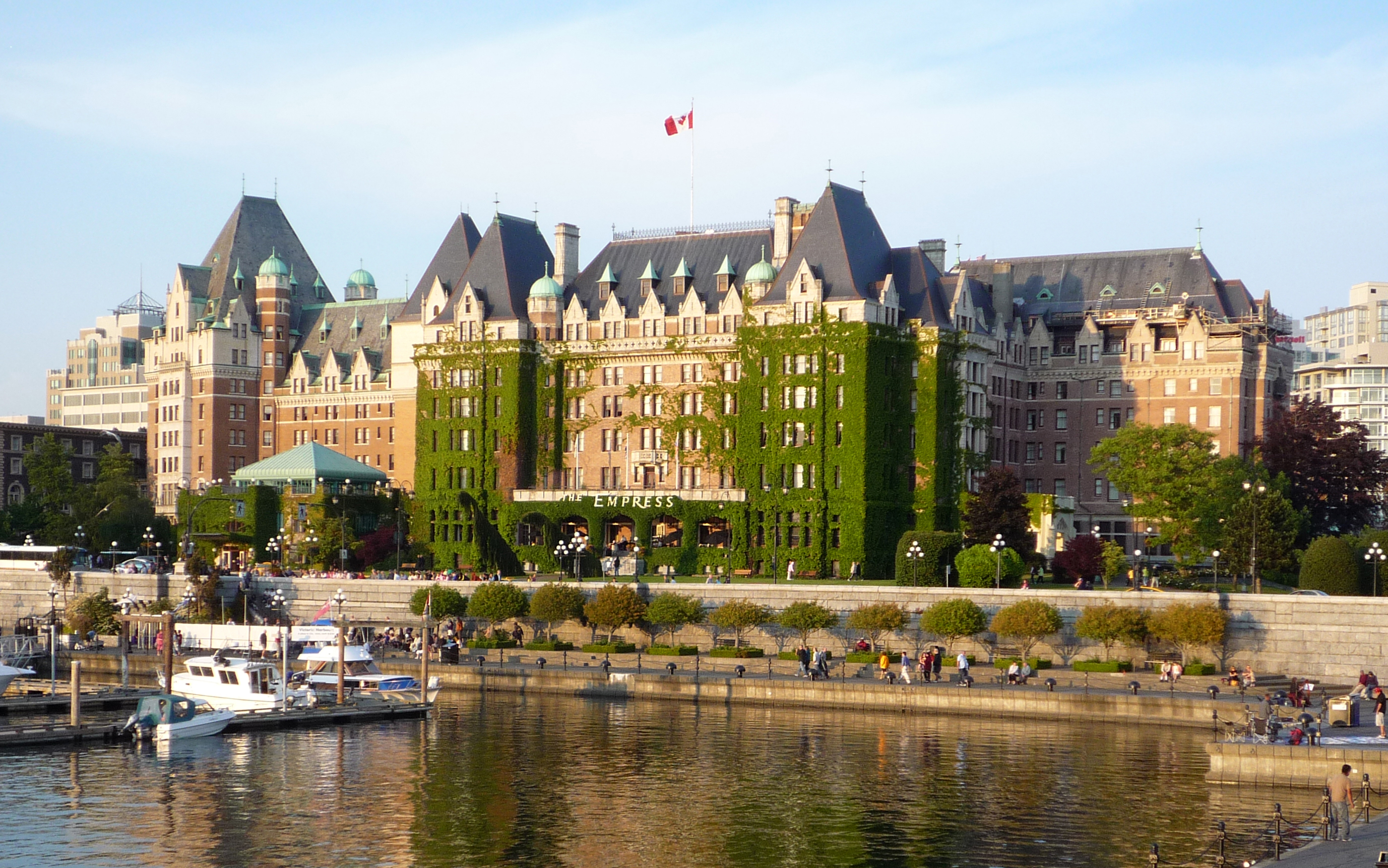 The The Fairmont Empress, Victoria, British Columbia, Canada.